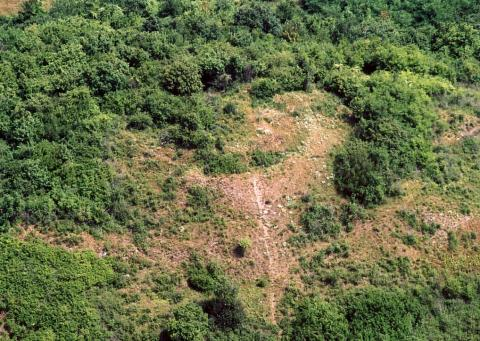 Ecseg, Hungary, aerialphotography